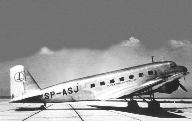 SP-ASJ Douglas DC-2-115D in Almaza 1937